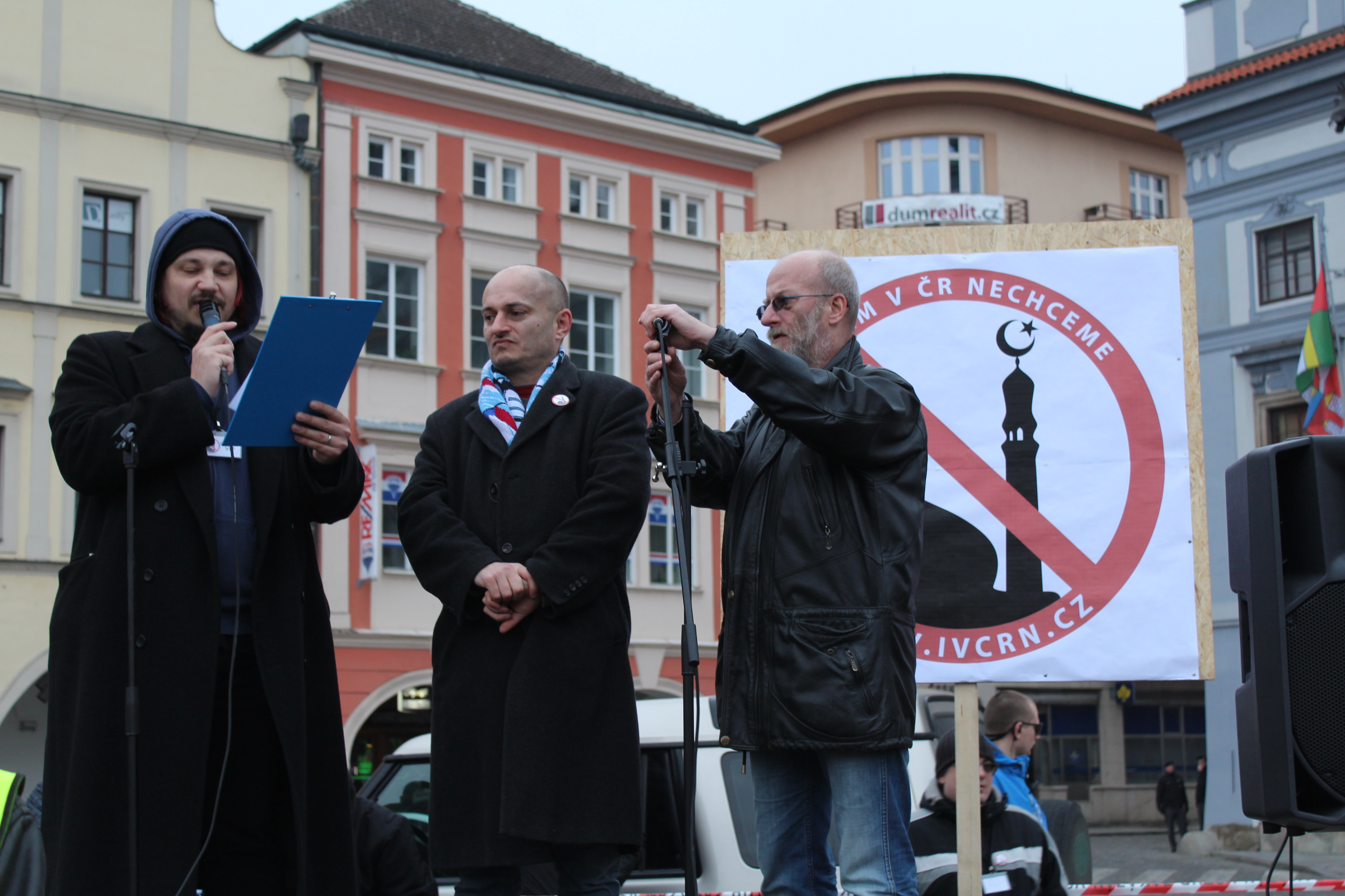 Miroslav Adamec, Martin Konvička and David Štěpán at demonstration of iniciative Islám v České republice nechceme (We don't want Islam in the Czech Republic) on March 14, 2015 in České Budějovice, Czech Republic.